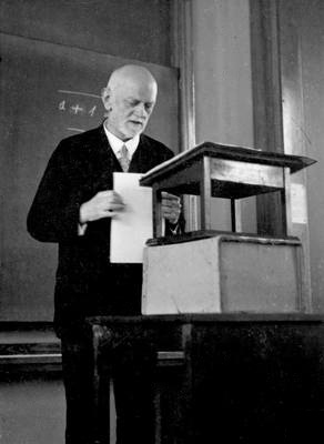 The mathematician David Hilbert in a lecture 1932.